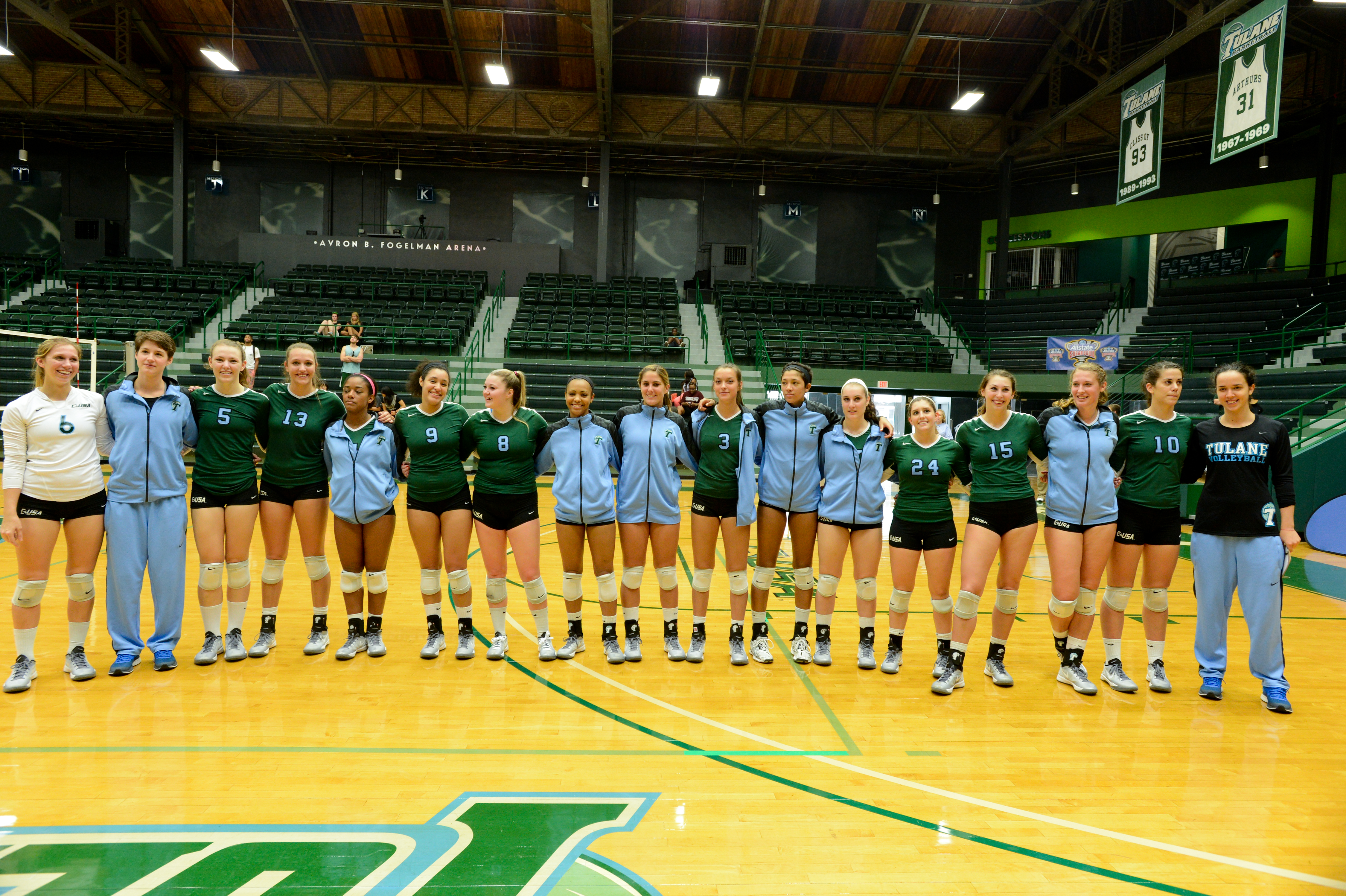 September 13, 2013 vs. Texas Southern